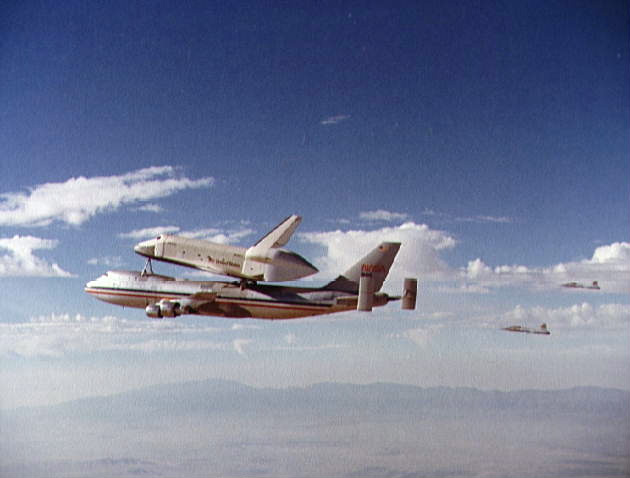 The Orbiter 101 "Enterprise" rides "piggy-back" atop the NASA 747 carrier aircraft during the early minutes of the first free flight of the Shuttle Apporach and Landing Tests (ALTs) conducted on August 12, 1977 at Dryden Flight Research Center in Southern California. Two chase planes can be seen in the right background. Astronauts Fred W. Haise Jr., and C. Gordon Fullerton were the crew of the "Enterprise." The ALT free flights are designed to verify Orbiter subsonic airworthiness, integrated systems operations and pilot-guided approach and landing capability and satisfying prerequisites to automatic flight control and navigation mode.